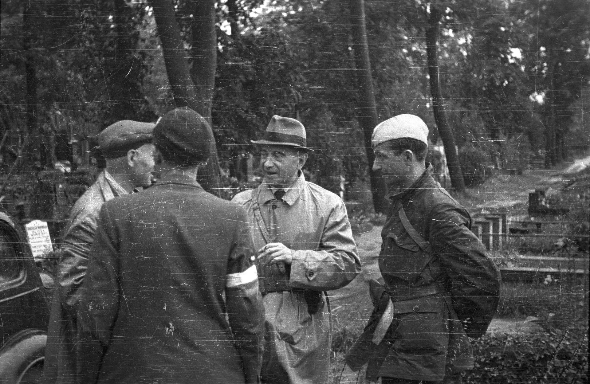 First day of Warsaw Uprising: Officers of Batallion "Pięść" at Evangelical cemetary on August 1, 1944 before "W" hour (start of the uprising). From left: major Alfons Kotowski "Okoń" (Commanding officer of Batallion "Pięść"), Kazimierz Iranek-Osmecki "Makary" and Stanisław Jankowski "Agaton".